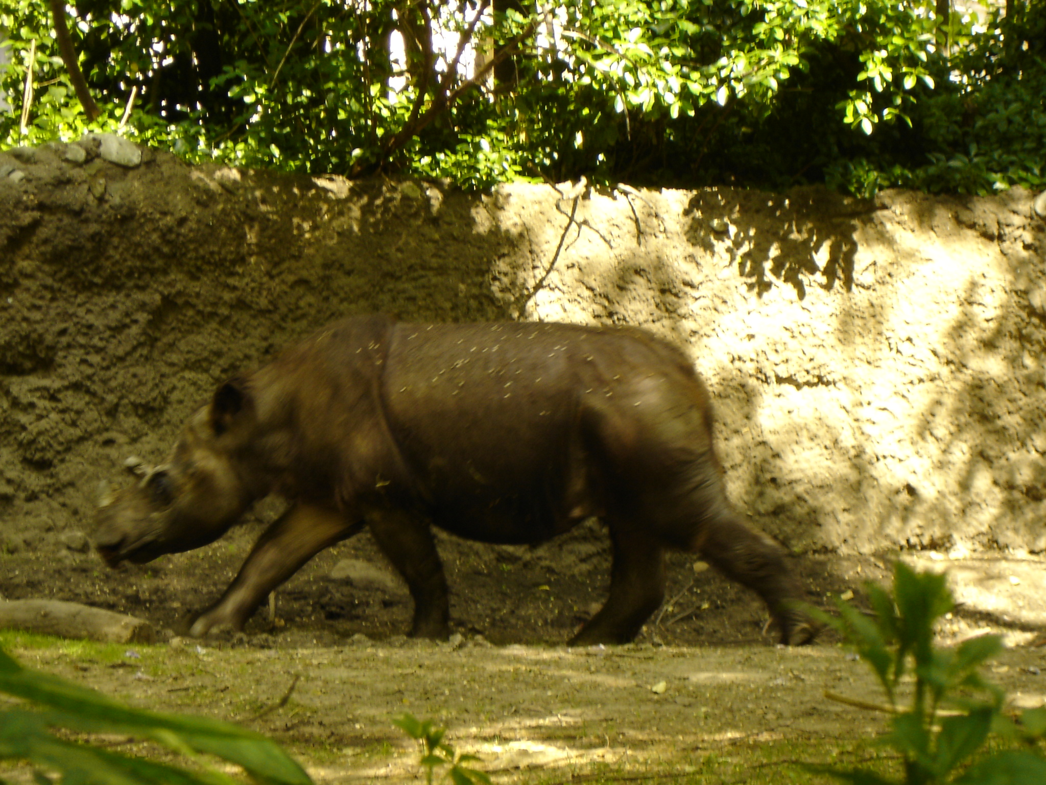 Rapunzel, the hairy sumatran rhinoceros, now dead.